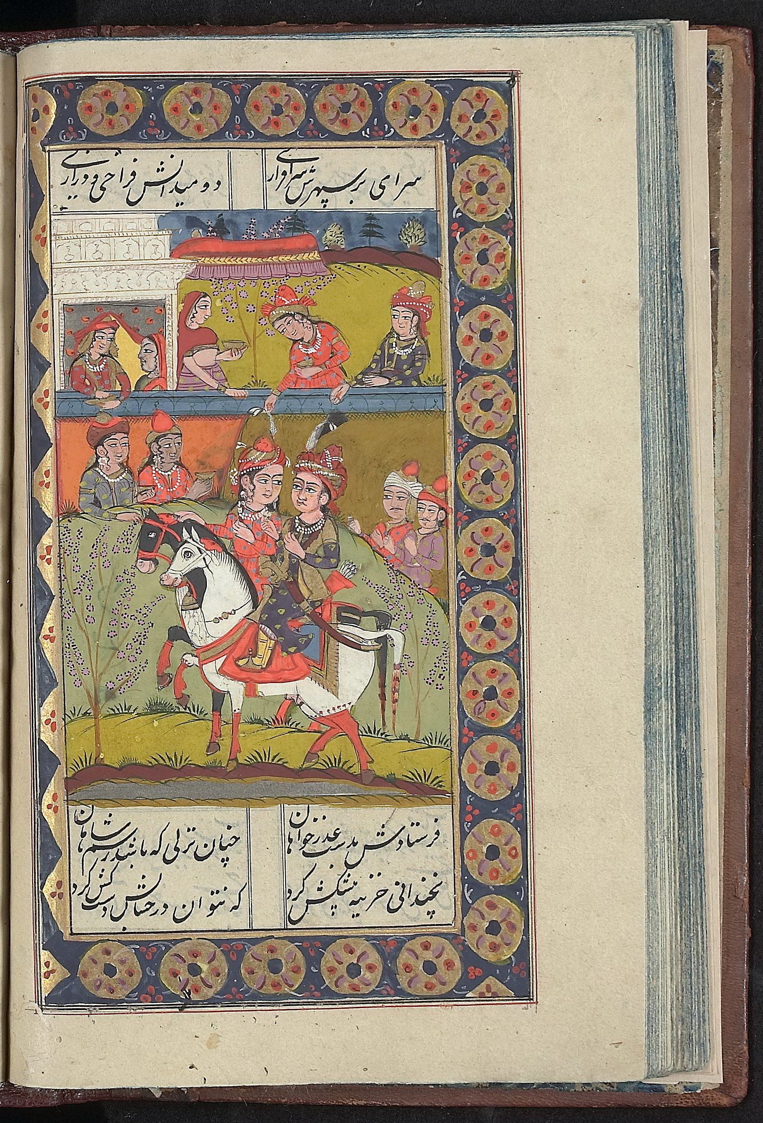 "Khosrow and Shirin" is the title of several Persian epic poems. The essential narrative is a love story of Persian origin, which is found in the great epico-historical poems of Shahnameh and which is based on historical figures that were elaborated and romanticized by later Persian poets.